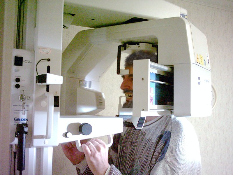 Orthopantomograph.